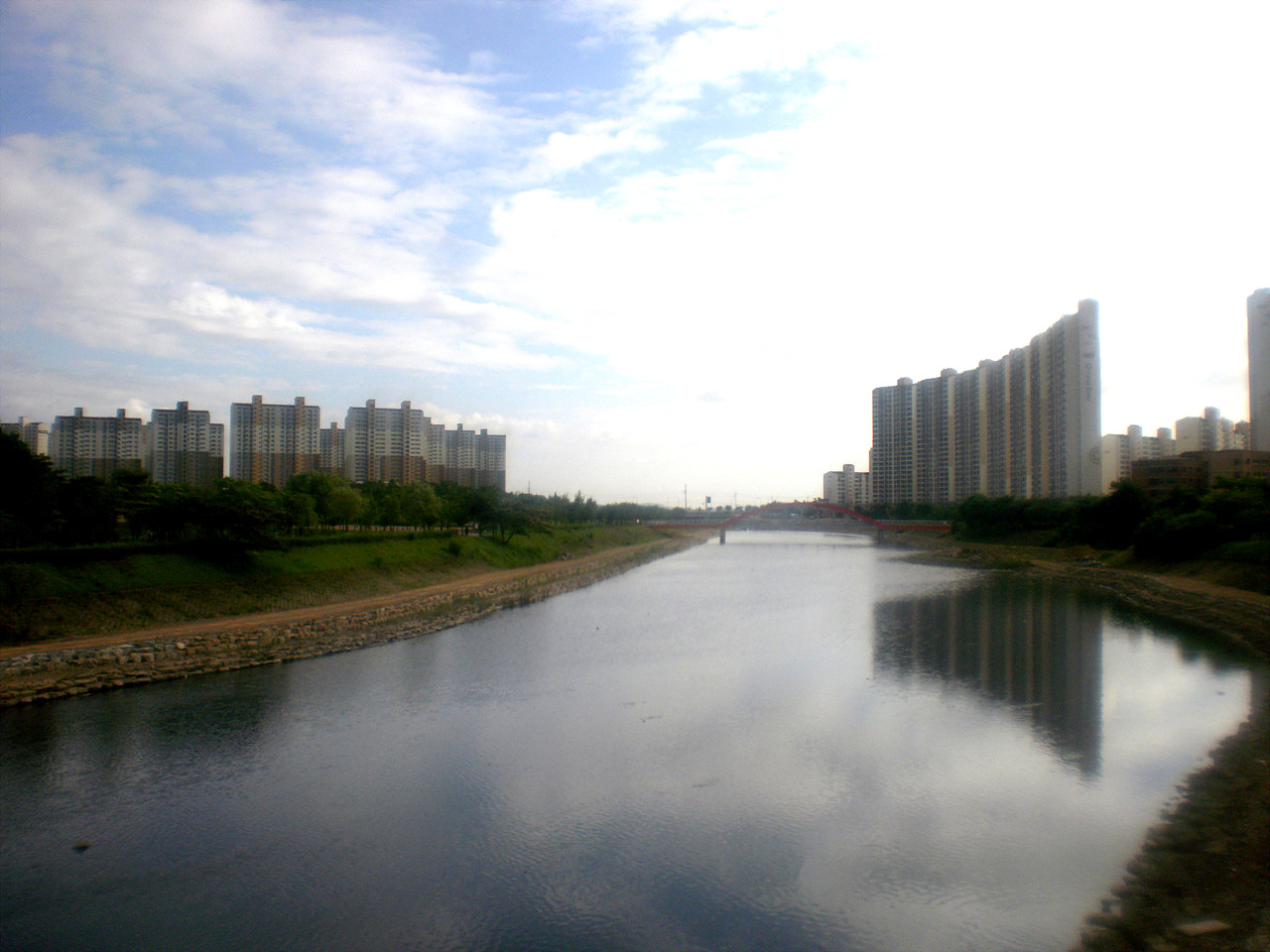 Ansancheon(riv.), in Hosu park. (Gojan-dong, Danwon-gu, Ansan-si, Gyeonggi-do, South Korea.)